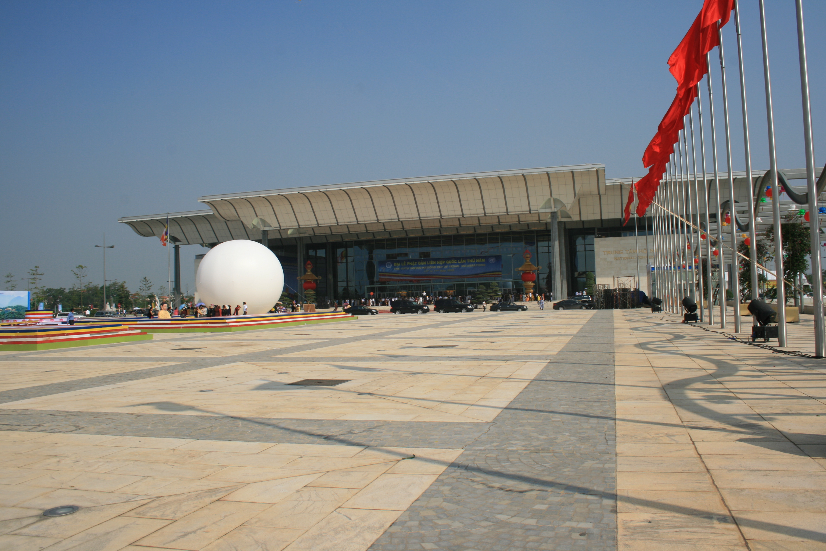 photo of Vietnam National Convention Center, Hanoi.